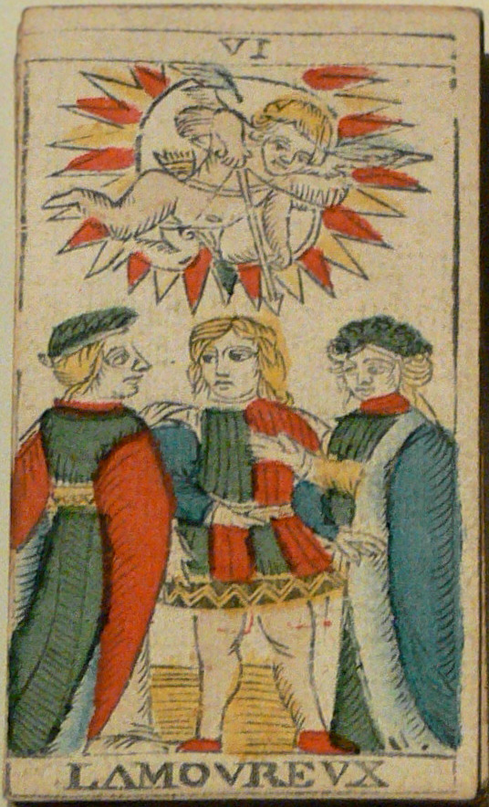 L'Amoureux (The Lovers), the sixth card of Major Arcana. Ravensburg, Museum Humpisquartier, Tarockspiel mit 76 Karten, 1751. Humpis-Quartier Native nameMuseum Humpis-QuartierLocationRavensburg, GermanyCoordinates47° 46′ 49.8″ N, 9° 36′ 57.24″ E Established2009Web page control : Q1637298 VIAF: 128828875 LCCN: nb2007020847 GND: 4565586-8 WorldCat institution QS:P195,Q1637298